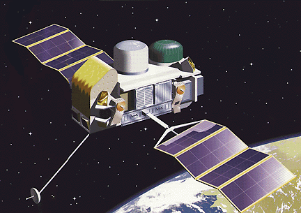 an artistic concept of the comptom observatory